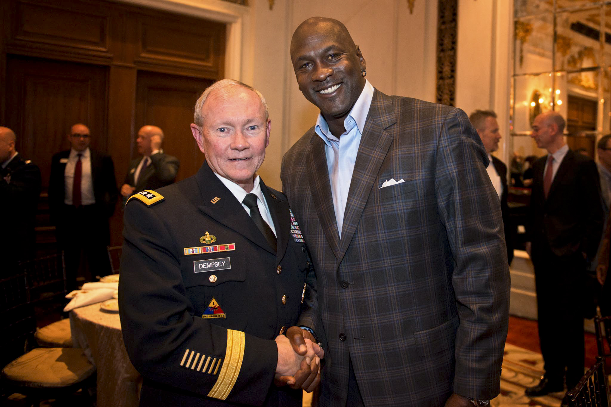 Army Gen. Martin E. Dempsey, chairman of the Joint Chiefs of Staff, and Michael Jordan, former basketball star and majority owner of the Charlotte Bobcats, talk at the National Basketball Association's board of governors meeting in New York, April 17, 2014. During the meeting, Dempsey discussed a new partnership between the NBA and Defense Department to support a commitment to service, calling it a "slam dunk."